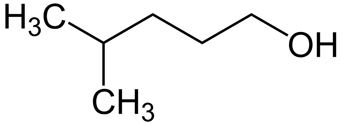 Structural formula of 4-methyl-1-pentanol (isomer of hexanol)